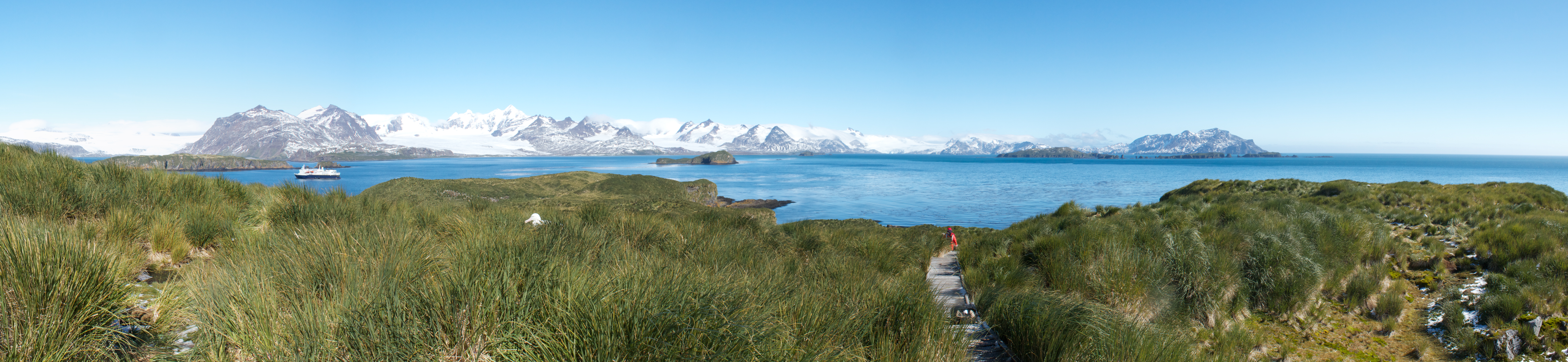 With Wandering albatross and National Geographic Explorer